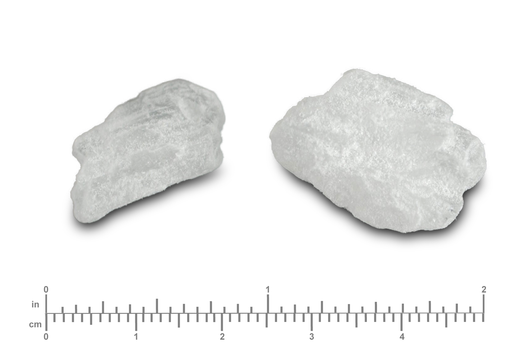 Crystal Methamphetamine, as shown in the photograph, can be used in five different manners. These are Smoking, Snorting, Swallowing, Injecting, and rectal administration (Dissolve in water and syringe into body through anus.). Another popular PnP drug that is commonly used with "Tina" is her friend "Gina," which is GHB.